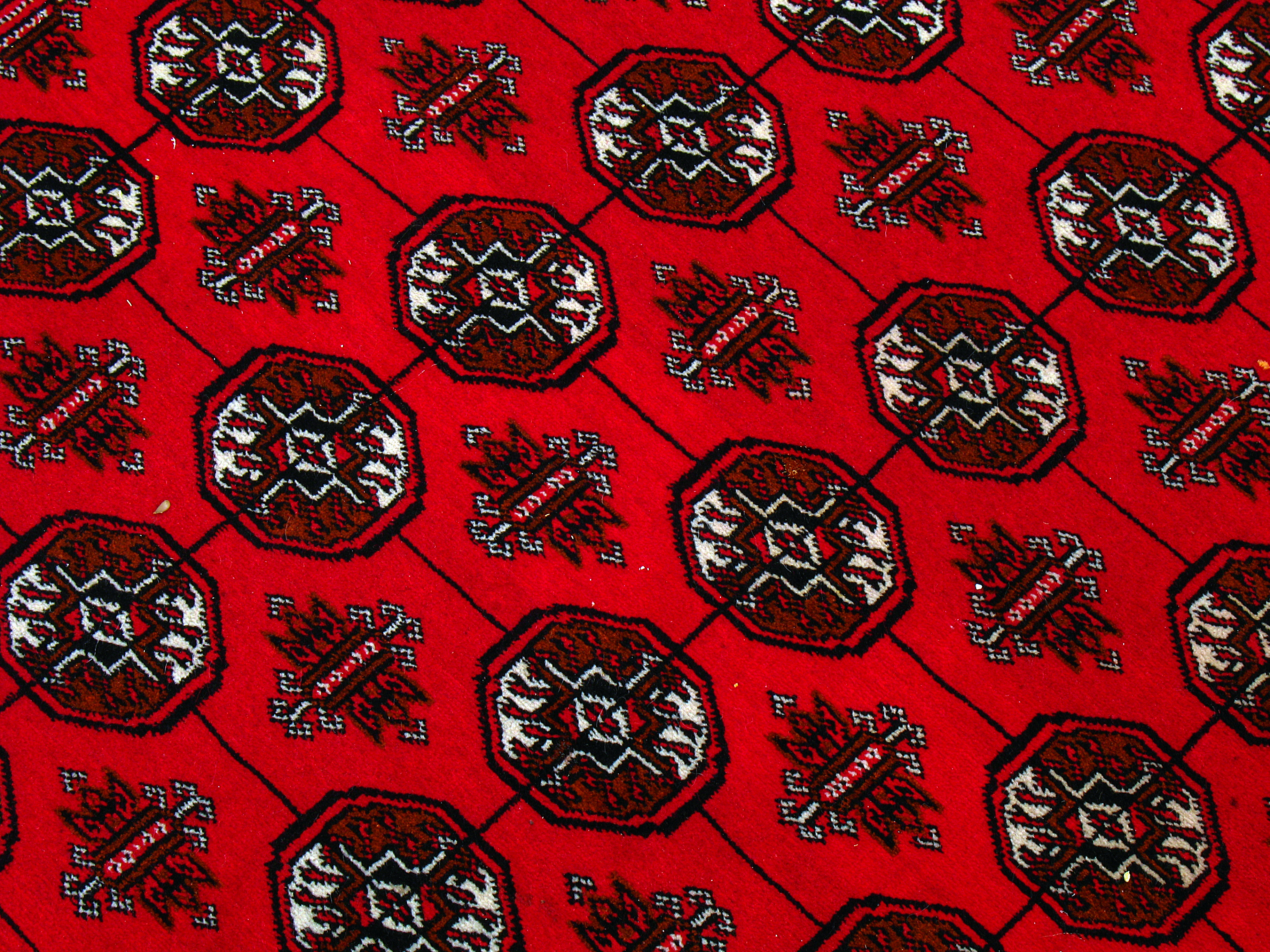 A carpet is a textile floor covering typically consisting of an upper layer of pile attached to a backing. The pile was traditionally made from wool, but, since the 20th century, synthetic fibers such as polypropylene, nylon or polyester are often used, as these fibers are less expensive than wool.